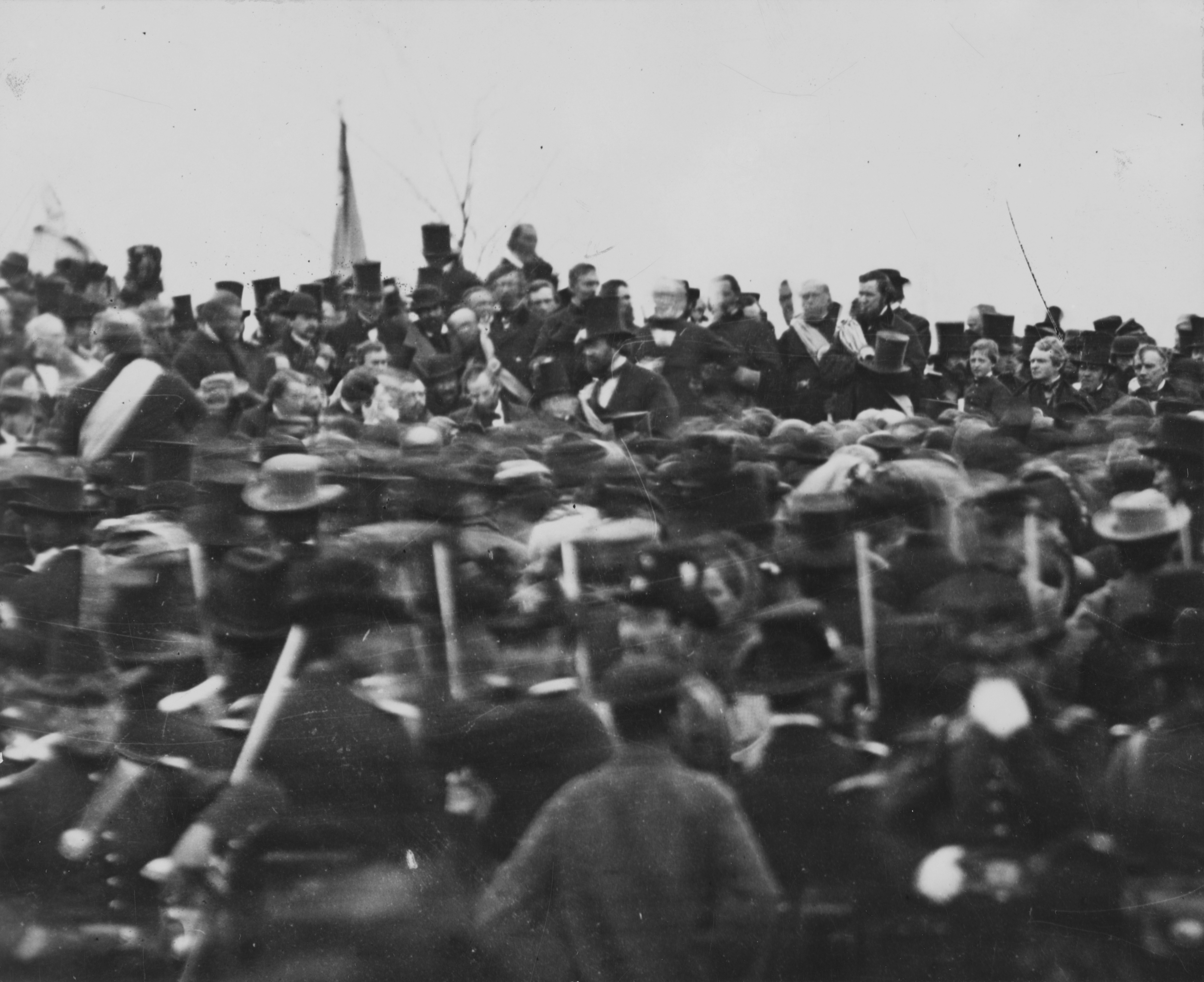 Abraham Lincoln (in the center) at the dedication of the Soldiers' National Cemetery in Gettysburg, Pennsylvania, on November 19, 1863. Made from the original glass plate negative at the National Archives which had lain unidentified for fifty-five years until 1952 when Josephine Cobb recognized Lincoln in the image. To Lincoln's left is bodyguard Ward Hill Lamon. To his far left is Governor Andrew G. Curtin of Pennsylvania. The photograph is estimated to have been taken at about noontime, just after Lincoln arrived, before Edward Everett's arrival and about three hours before Lincoln gave his famous Gettysburg Address[1]. LOC note: Photo is a reprint of a small detail of a photo showing the crowd gathered for the dedication of the Soldiers' National Cemetery in Gettysburg, Penn., where President Abraham Lincoln gave his now famous speech, the Gettysburg Address. Lincoln is visible facing the crowd, not wearing a hat, about an inch below the third flag from the left. Josephine Cobb first found Lincoln's face while working with a glass plate negative at the National Archives in 1952. (Source: NARA, Rare Photo of Lincoln at Gettysburg